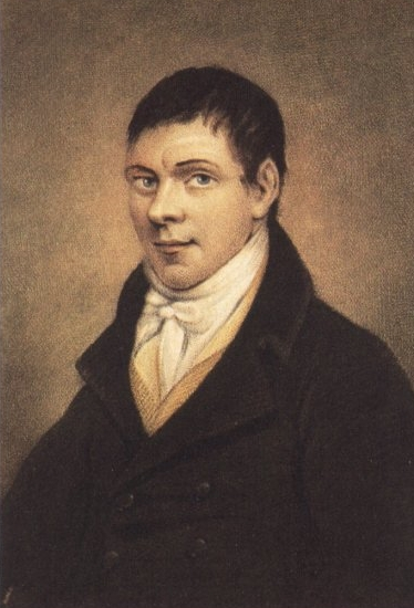 Michael Dwyer (1772–1825) was a Society of the United Irishmen leader in the 1798 rebellion. He later fought a guerilla campaign against the British Army in the Wicklow Mountains from 1798-1803. Dwyer was celebrated for his resourcefulness and courage, although he could also be ruthless. He survived huge ransoms and the thousands of British troops sent to Ireland to kill him.